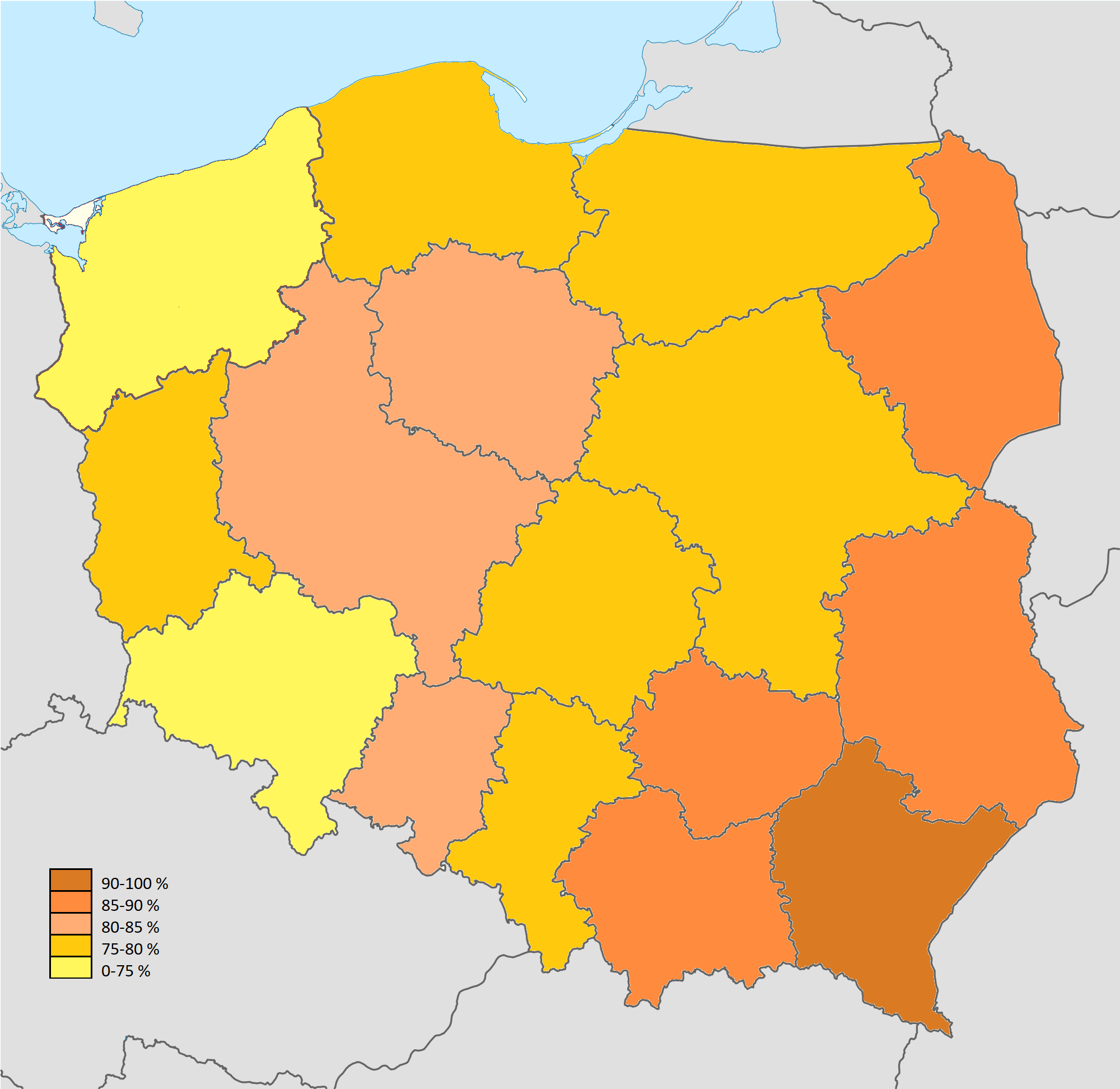 Percentage of persons who declared that they believe or very deeply believe, 2015. Based on data from